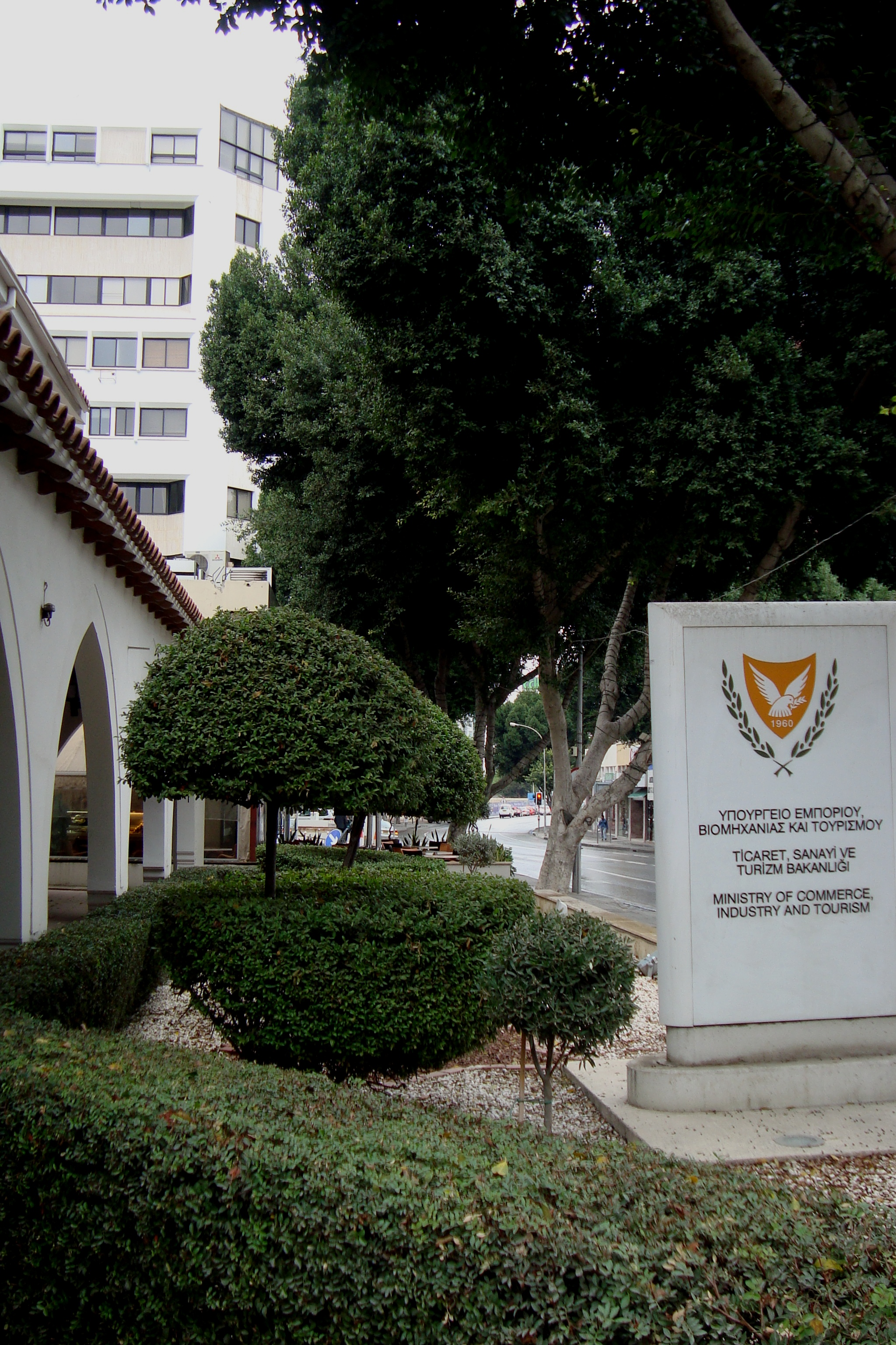 Ministry of Commerce Industry and Tourism in Nicosia capital of Replubic of Cyprus